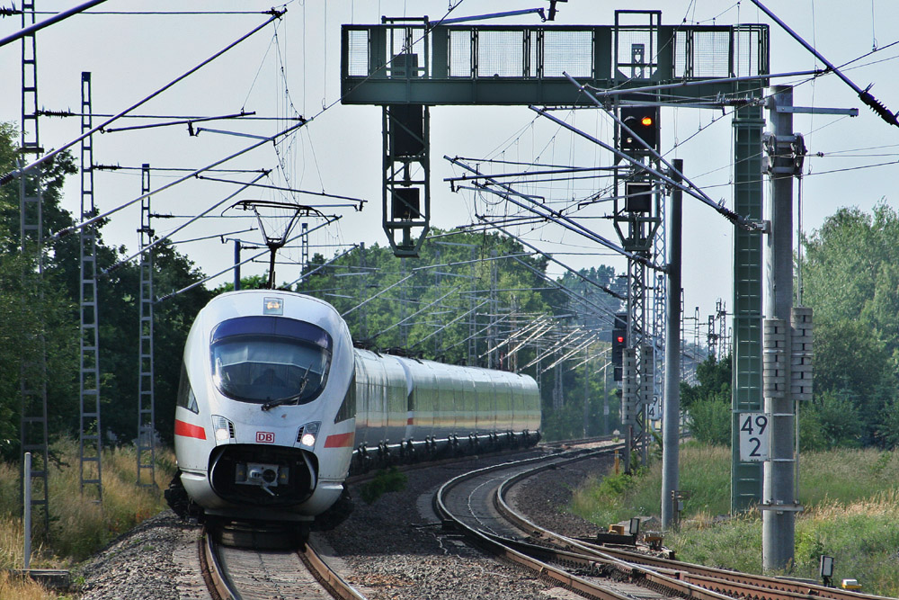 An ICE-T high-speed trains passes through the station of Paulinenaue on the Berlin-Hamburg high-speed railway line.